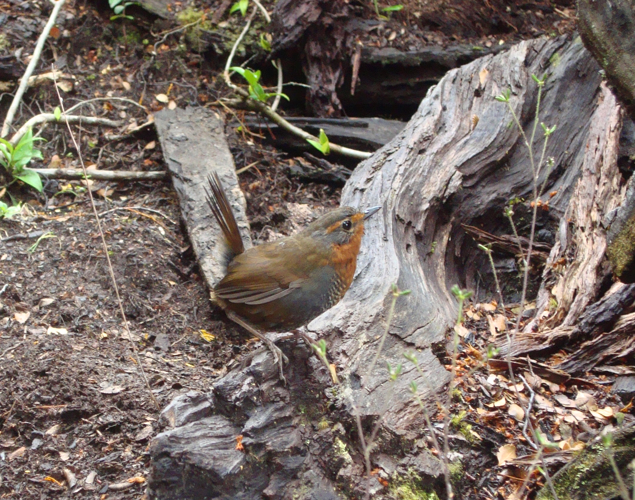 Chucao Tapaculo Scelorchilus rubecula, near Parque Nacional Queulat, Chile. I'd been listening to this perky little creature throughout the trip. He likes to hide among the undergrowth of deep rainforest, so you rarely see him. But if you hold still for long enough he'll come and hop right up onto your sleeping bag!